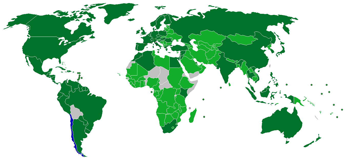 Map that shows the countries with diplomatic relations with the Republic of Chile: in green, countries with diplomatic relations; in dark green, couintries with diplomatic relations and ambassies in their territory